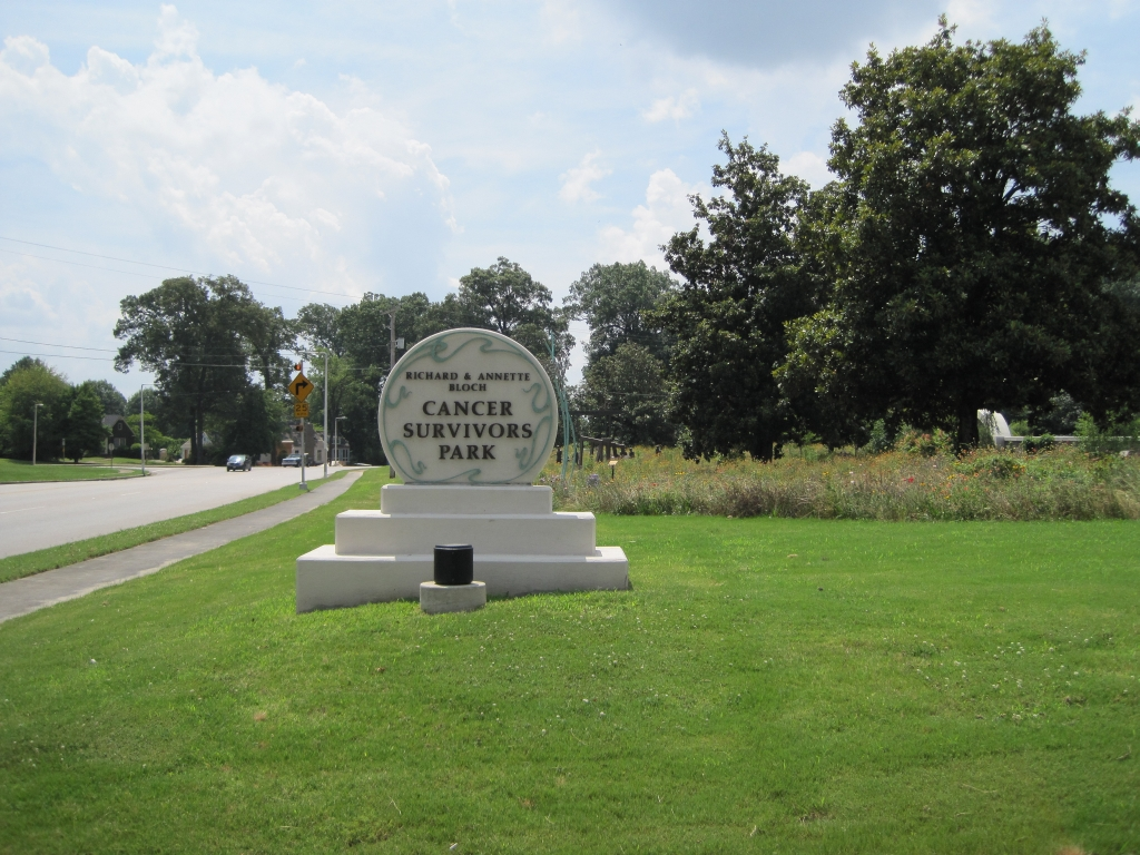 Cancer Survivors Park on Parkins Road between Park and Southern Avenues in Memphis, Tennessee